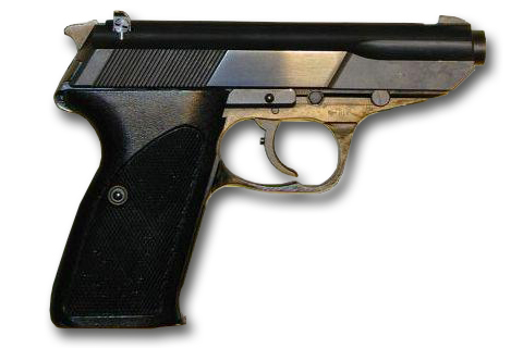 Walther pistol, type P5 calibre 9x19mm.